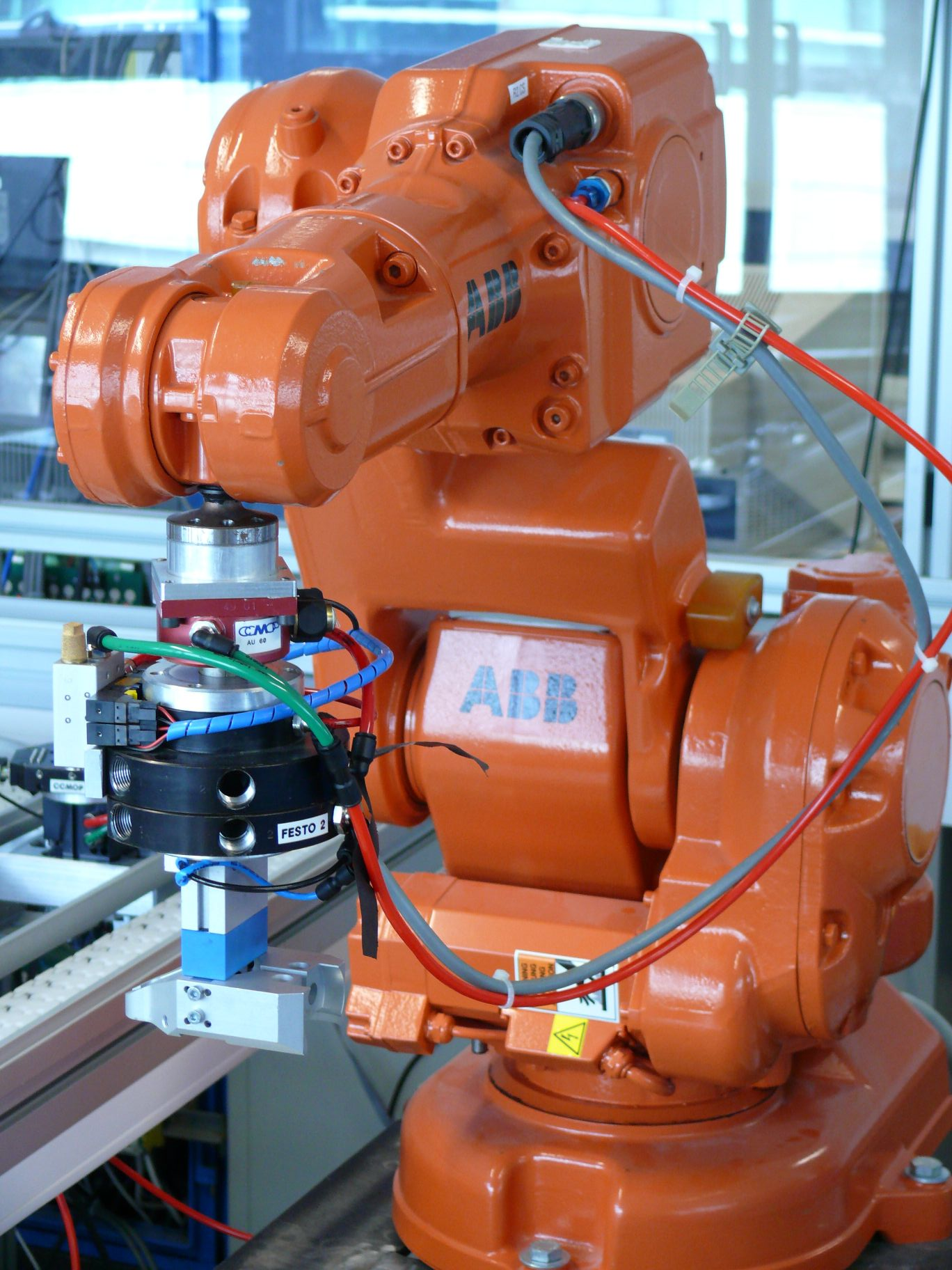 ABB industrial robot in Villeneuve-d'Ascq (Nord-Pas-de-Calais, France).